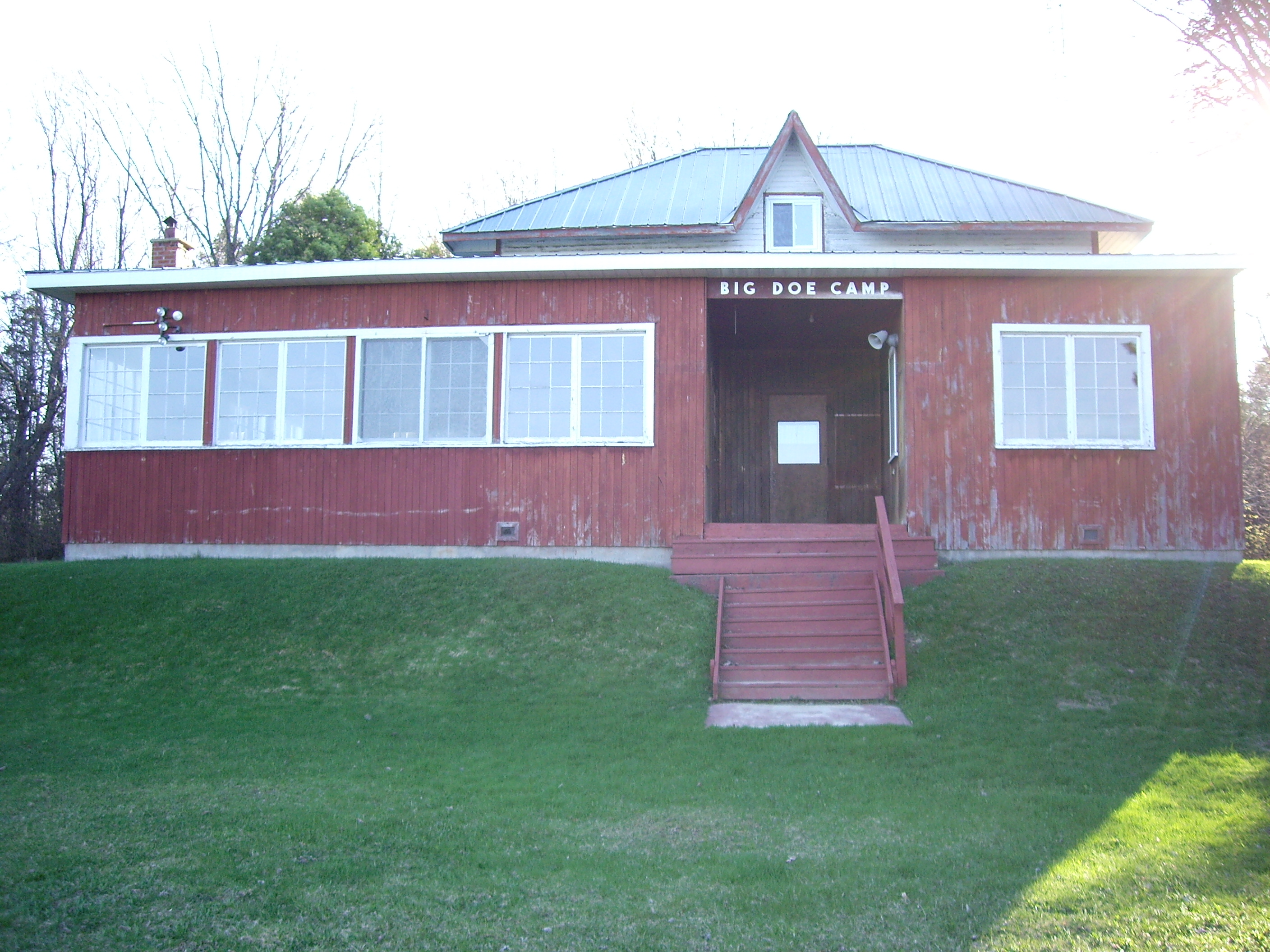 What remains of the old Big Doe Camp Dining Hall and Office as it appeared in May 2007.